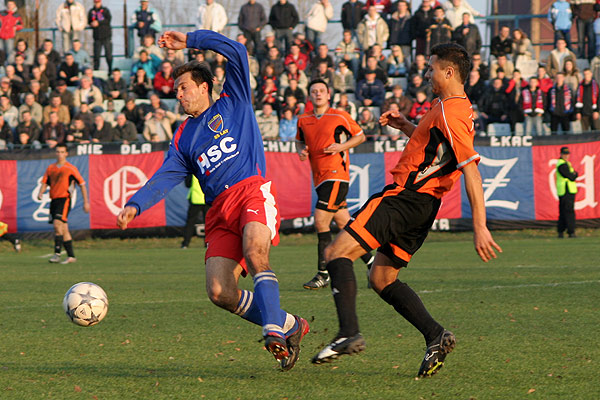 Match between Raków Częstochowa and Chrobry Głowów (III liga polska